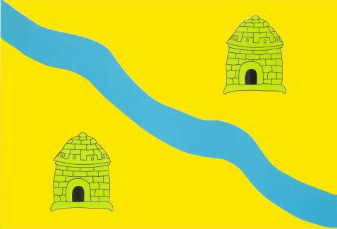 Flag horizontal, high proportions of two to three long, yellow with a wavy band of two peaks, clear blue, thickness 1 / 6 of the height of the cloth, placed in the upper right next to the flagpole at the bottom of the flight, with both Borges green coat, high 1 / 3 of the width of the cloth and one sixth of the length of cloth, a cross in the upper half of the last third vertical and the other in the lower half of the first third.